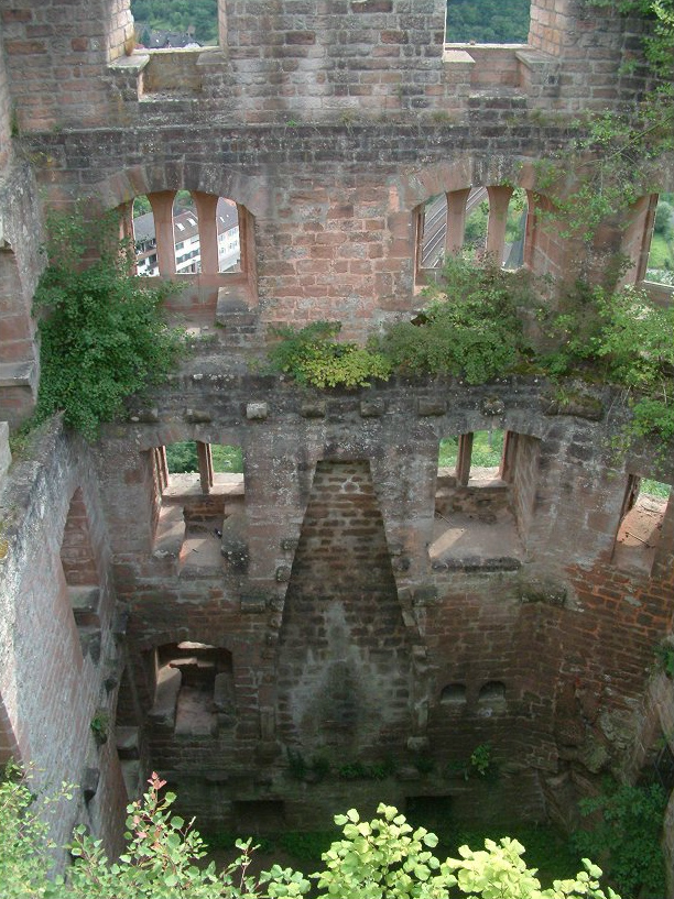 Castle Frankenstein (Palatinate, Germany), interior view.